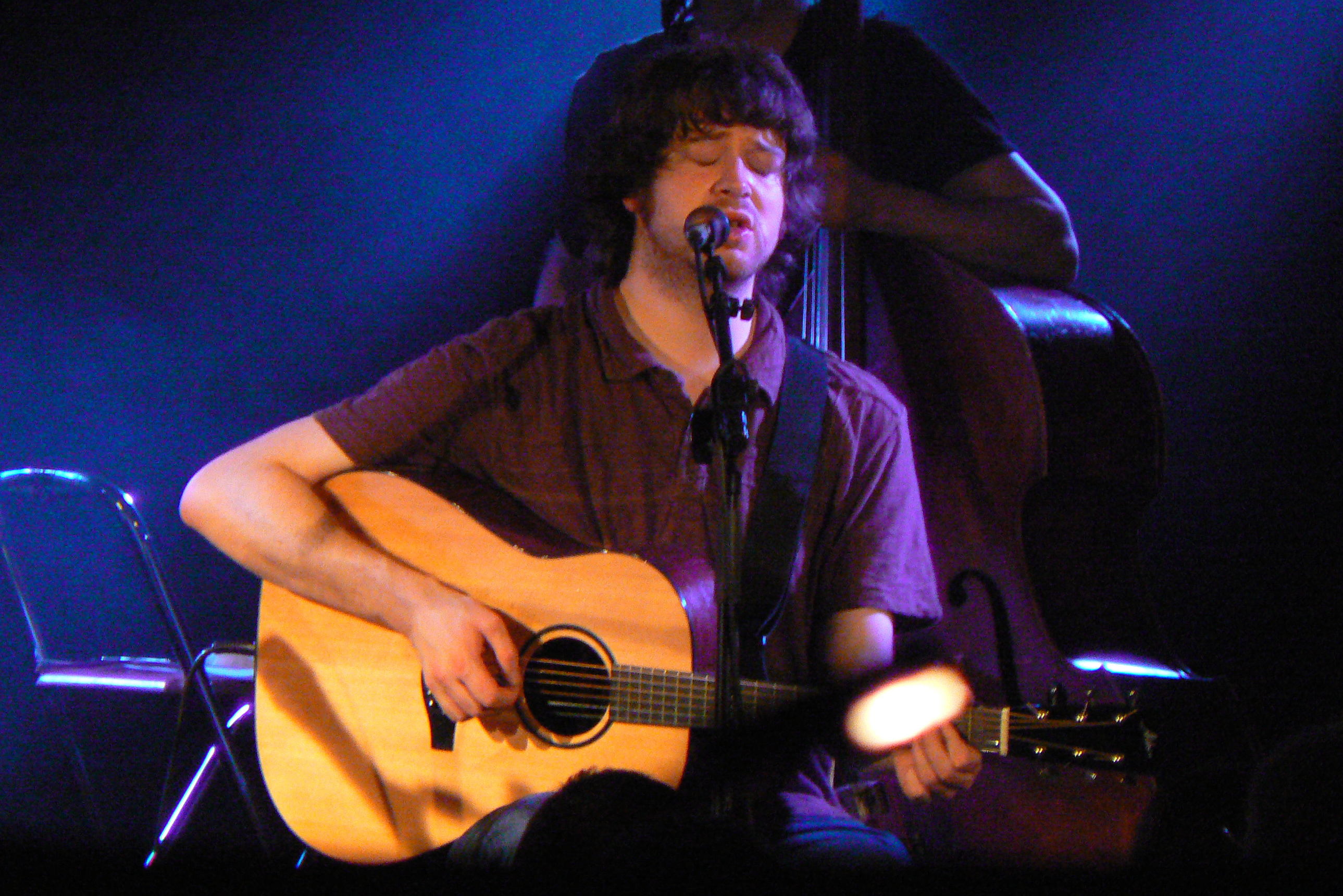 Kris Drever singing live at the Lemon Tree, Aberdeen